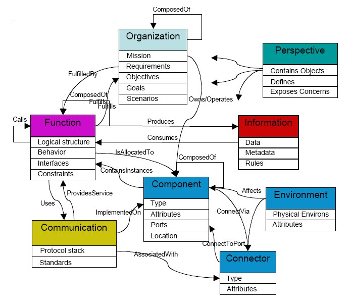 Extended RASDS Top Level Object Model